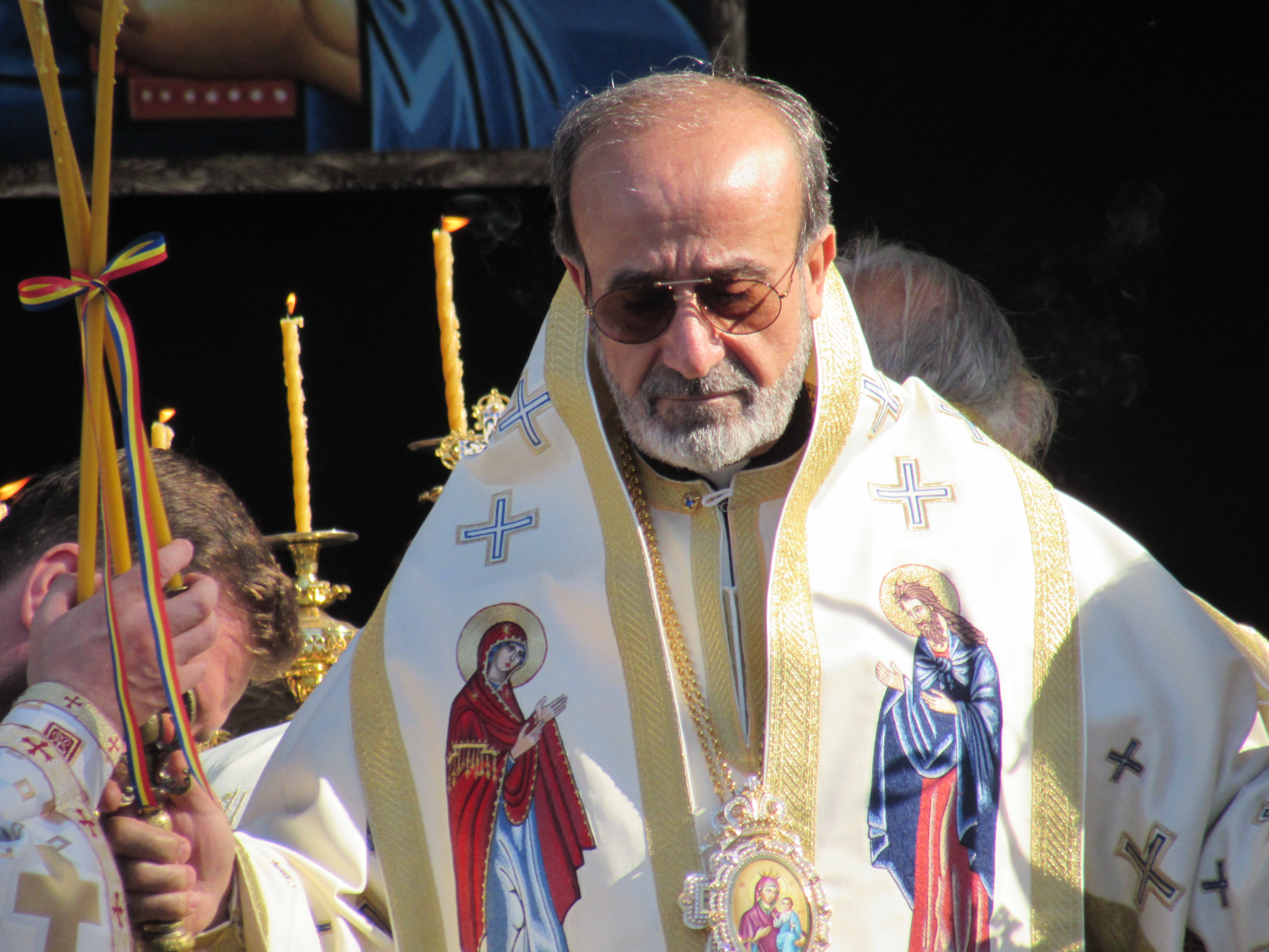 Antiochian orthodox bishop Qais Sadiq